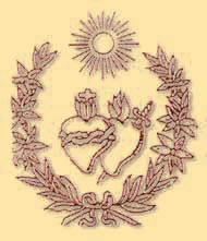 Society of the Sacred Hearth of Jesuchrist emblem, designed by founderess Sophie Barat